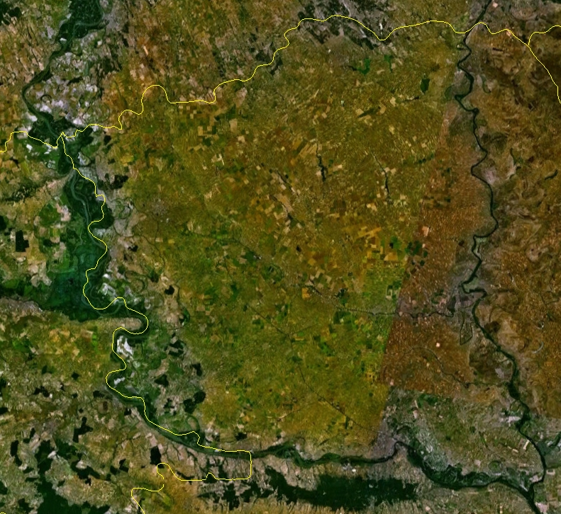 Satellite image of Bačka